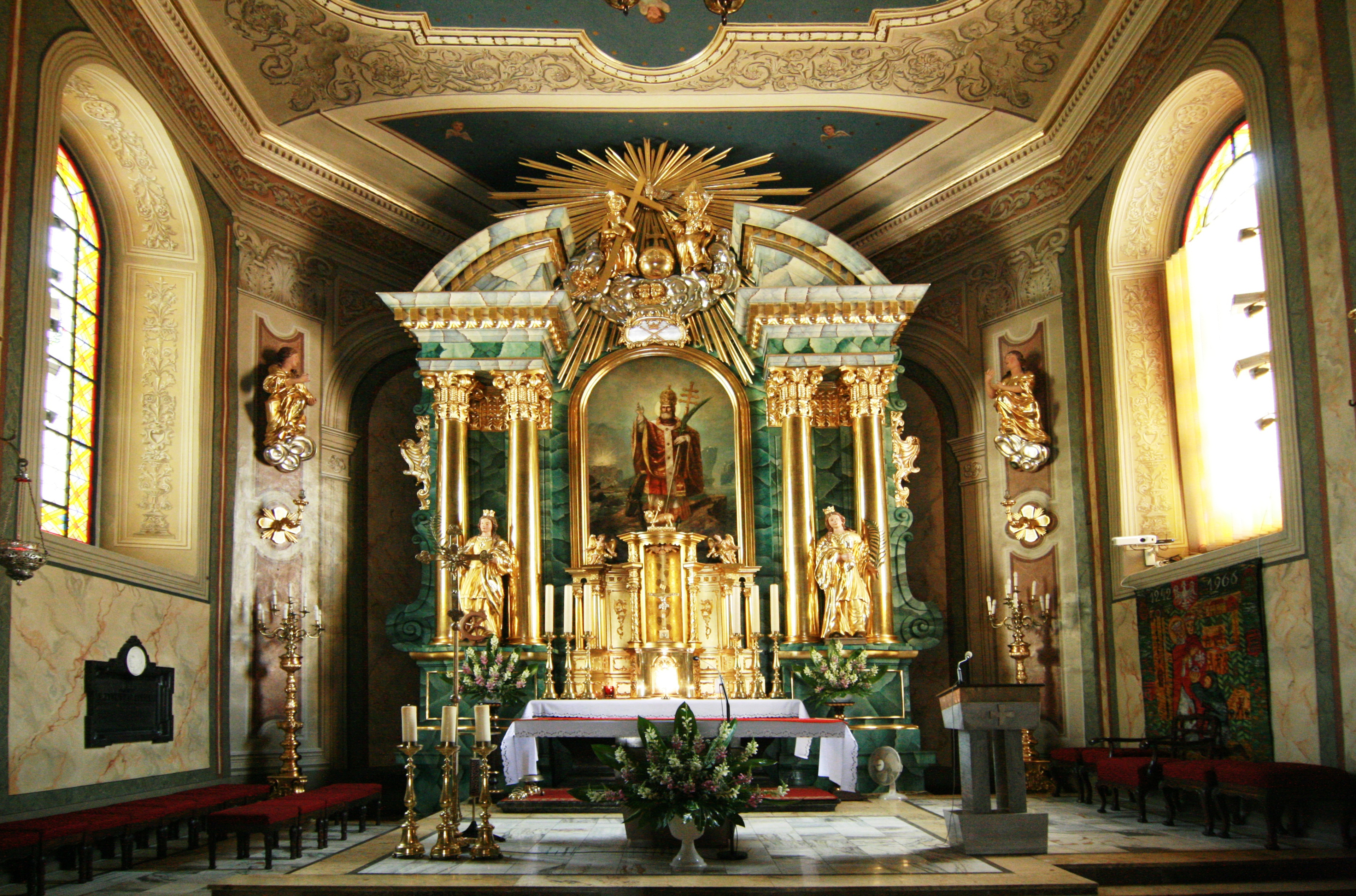 Main altair